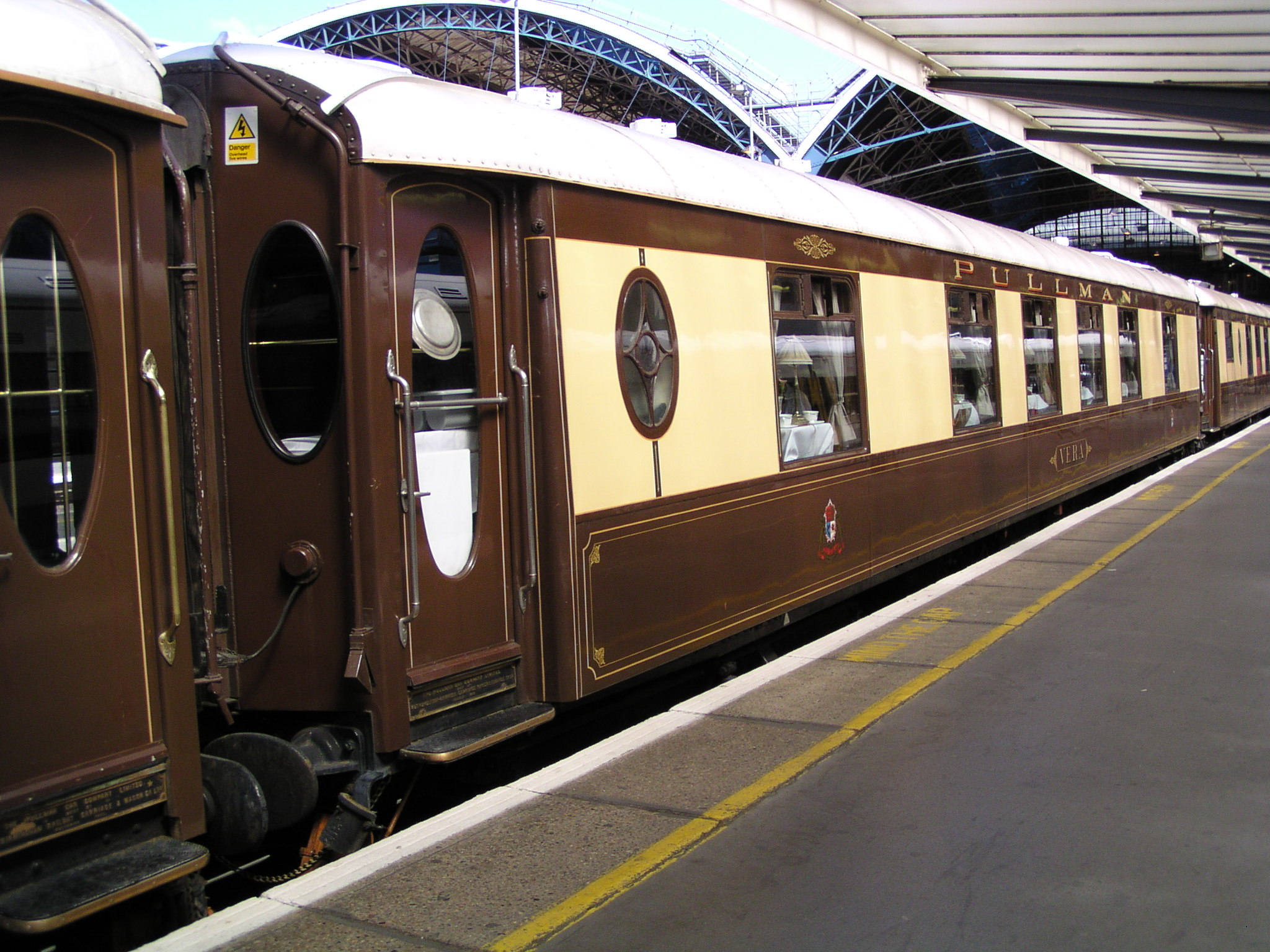 Former 5Bel carriage, 284 "Vera" at London Victoria on 15th August 2003. This car was previously in unit 3052, and is now owned and operated by VSOE. Image by Phil Scott (Our Phellap)